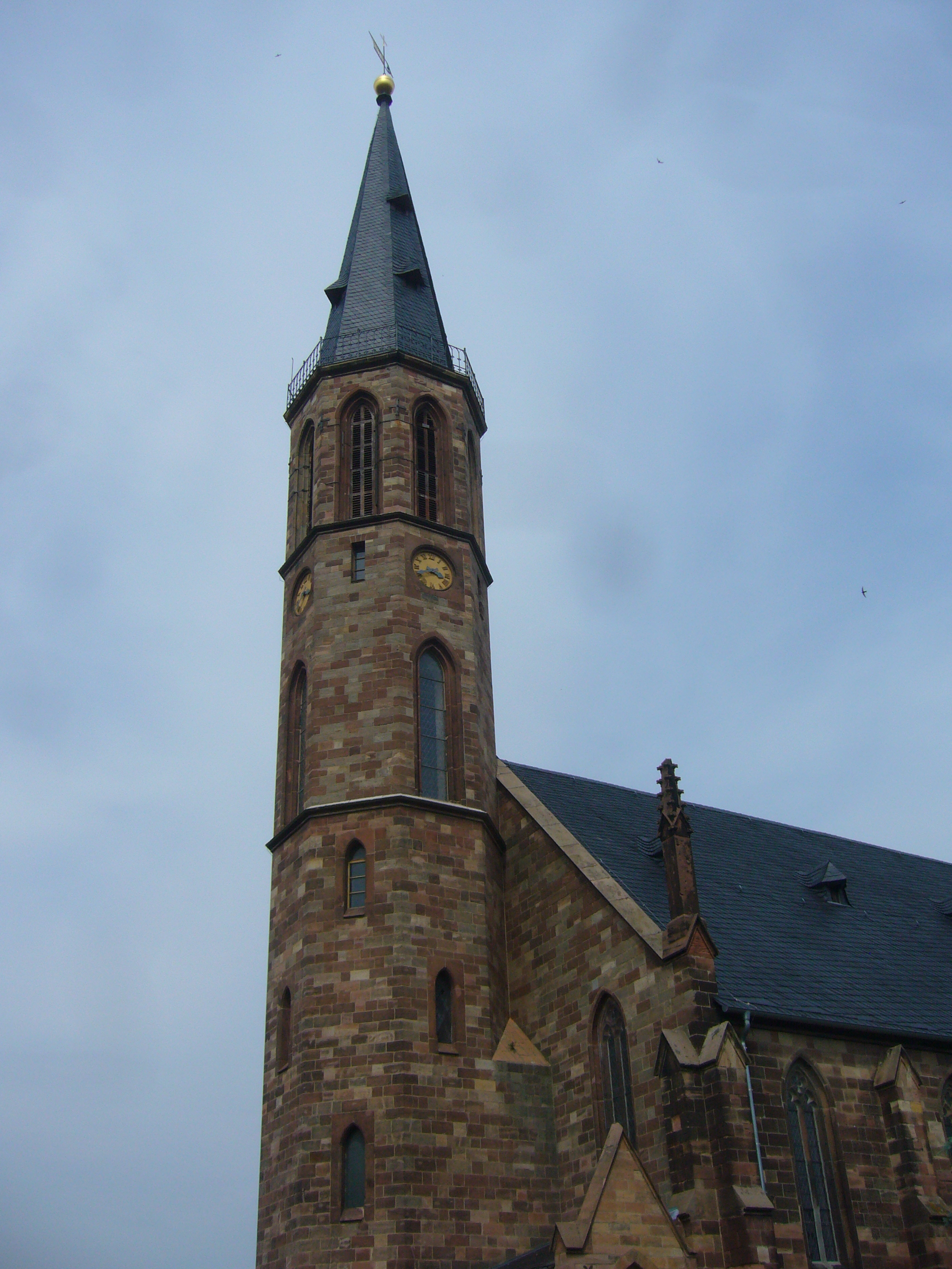 Church in Gehofen, Kyffhäuser region, Germany